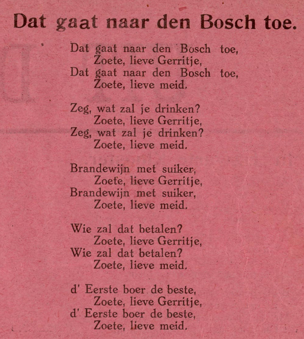 Song sheet (music sheet) with the folk song 'Dat gaat naar Den Bosch toe'. Not dated; printed around 1900. Source: Lbl Meertens 30804, liedbladencollectie Wouters/Moormann, Meertens Instituut, Amsterdam. Online source: Het Geheugen van Nederland (